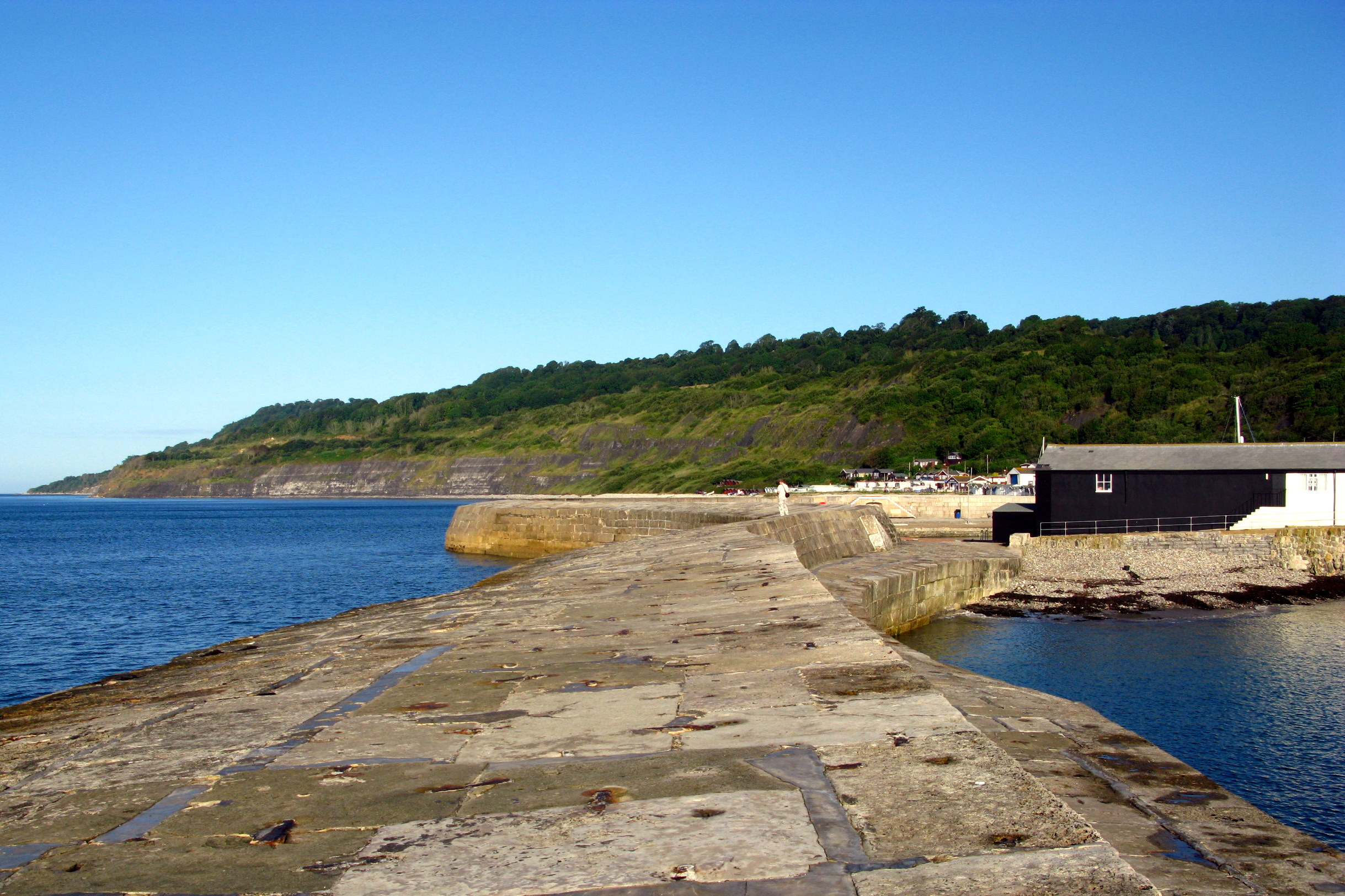 Harbor walls, called the The Cobb, in Lyme Regis on the coast of the English Channel near the western border of Dorset / England / European Union.